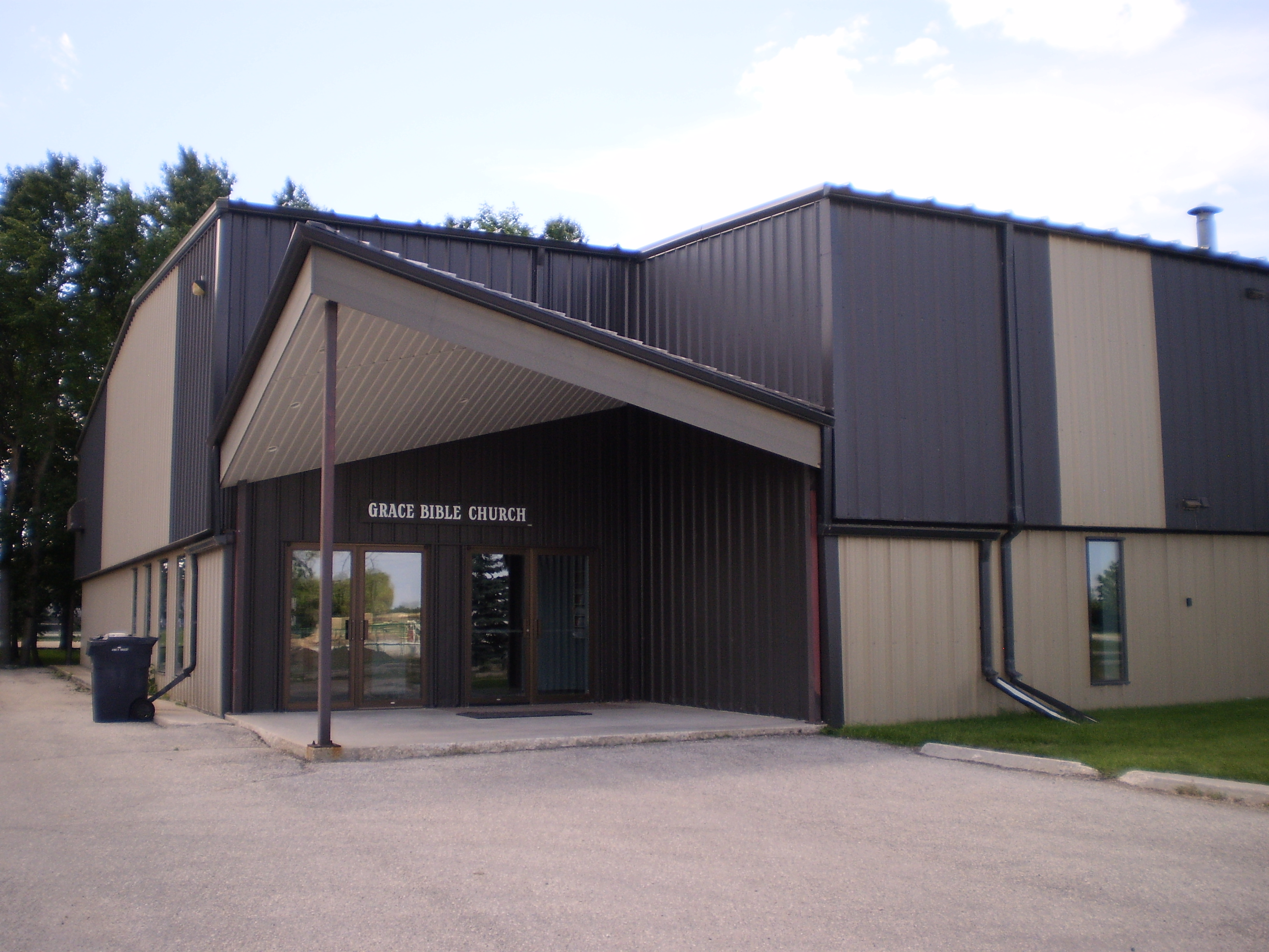 Grace Bible Church, Dauphin, Manitoba